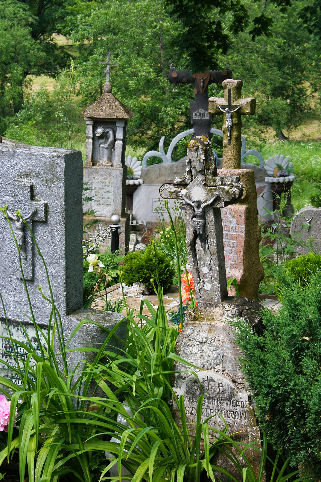 Cemetery of Pociūnėliai